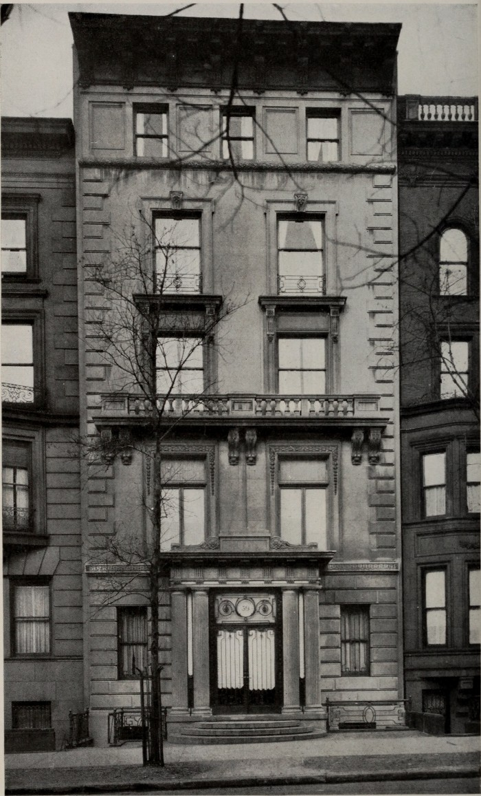 Campion House, 39 West 86th Street, Manhattan, New York City, New York. The headquarters of America Press (the publisher of America magazine) and the residence of the magazine's Jesuit editors.